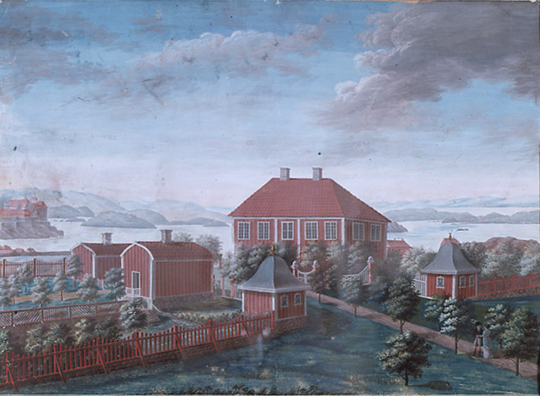 Løkken Bellevue (Bellevue manor) in Oslo by Augusta Hanson from 1800.